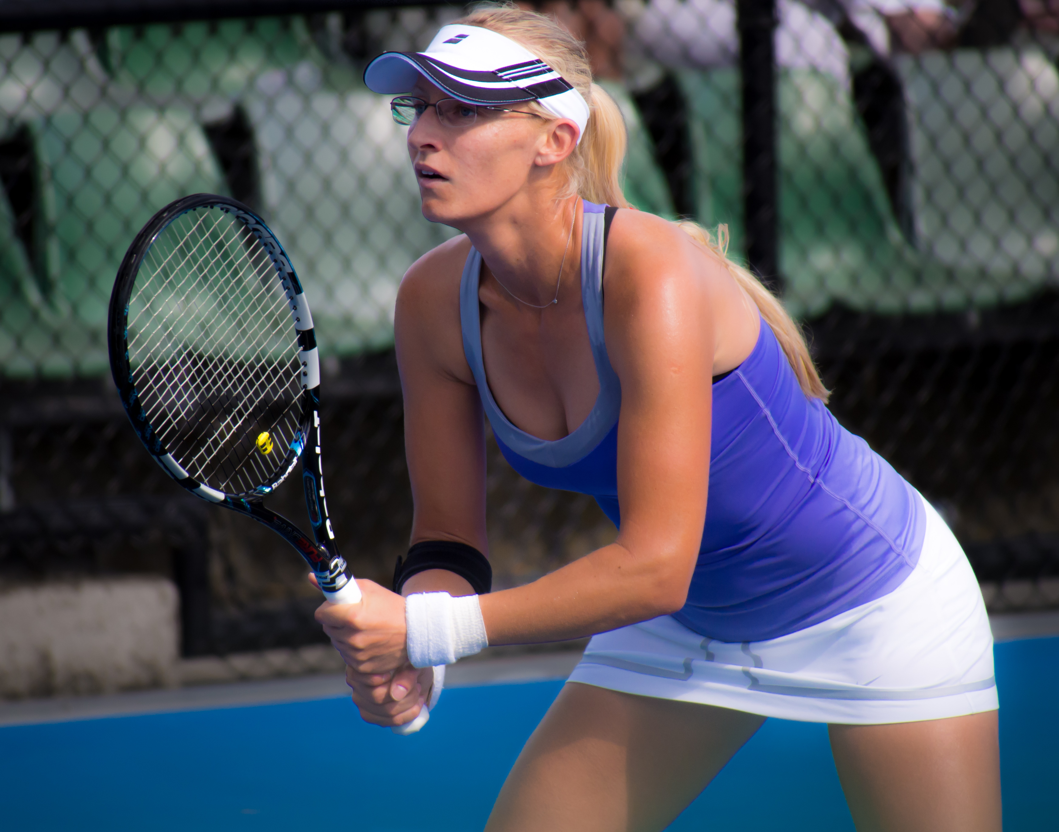 Mirjana Lucic-Baroni during her 1st round doubles 3 set win with Jelena Jankovic over Arina Rodionova and Olivia Rogowska at the 2013 Australian Open